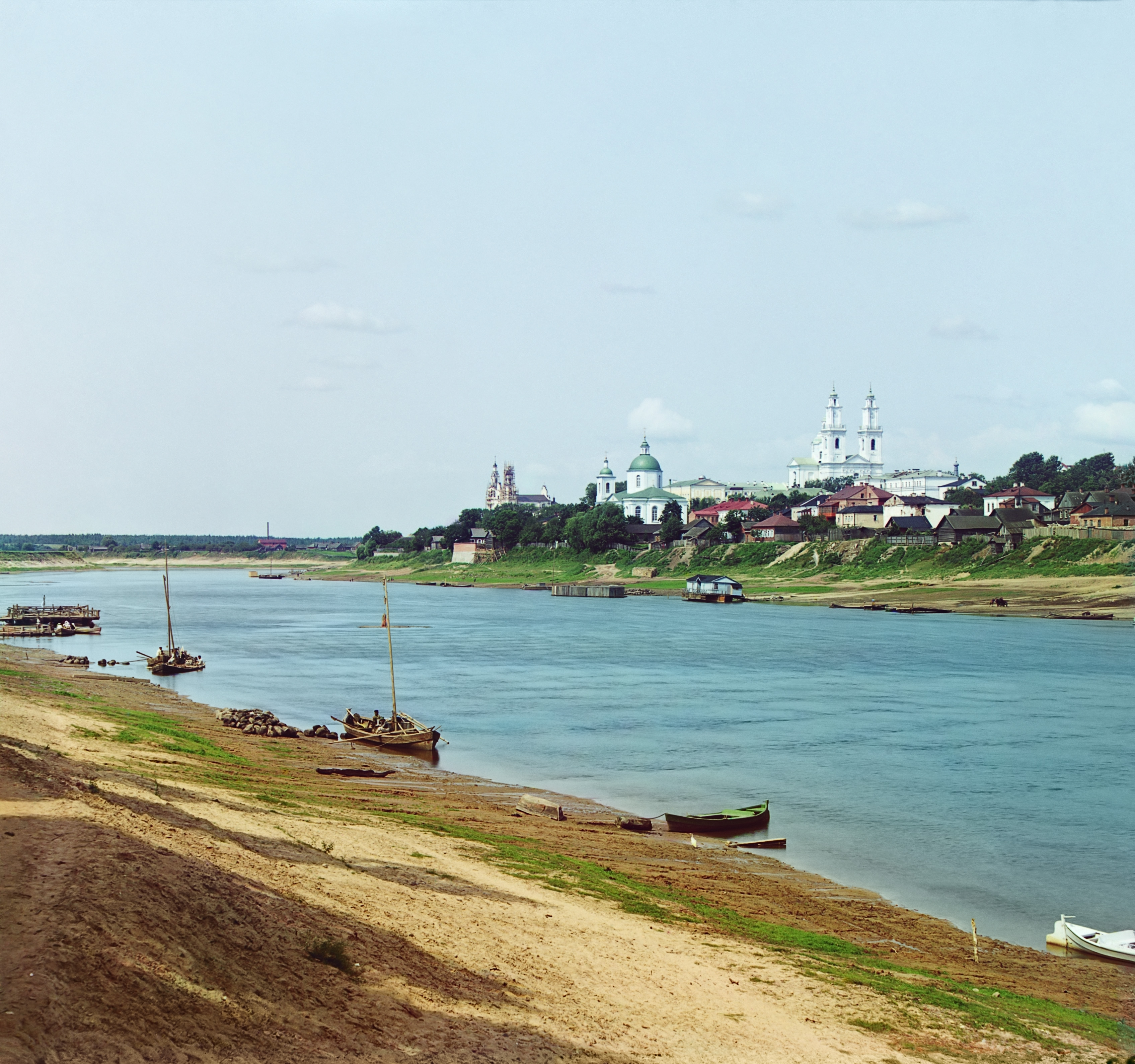 View of Polotsk from the other bank of the Polota river. Photograph by Sergei Mikhailovich Prokudin-Gorskii, taken in en:1912